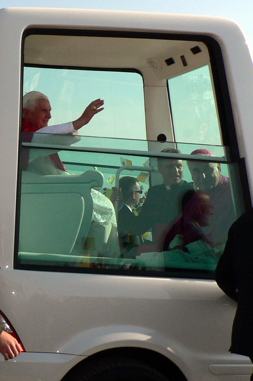 Pope Benedict XVI in Brno, Czech Republic. Bishop of Brno Vojtěch Cikrle sits opposite the Pope